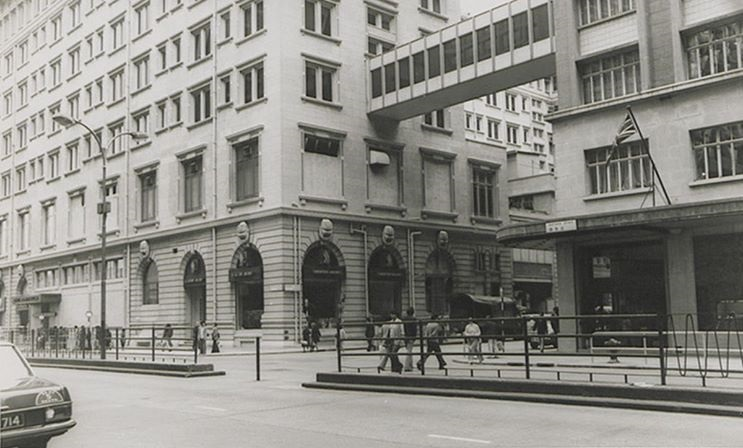 The Peninsula Court (1957-1982) was built across the Middle Road to act as an annex building of the Peninsula Hotel in Tsim Sha Tsui, Hong Kong.A footbridge was built in the 1970s to connect the two buildings.